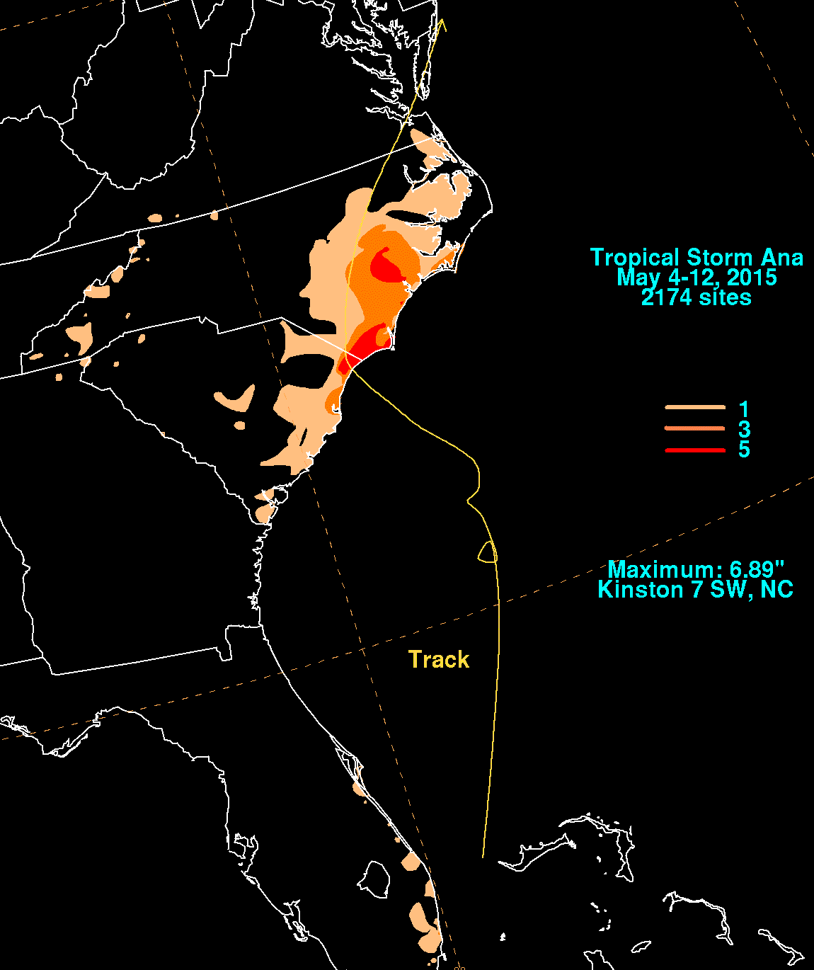 Map of rainfall associated with Tropical Storm Ana across the Eastern United States in early May 2015